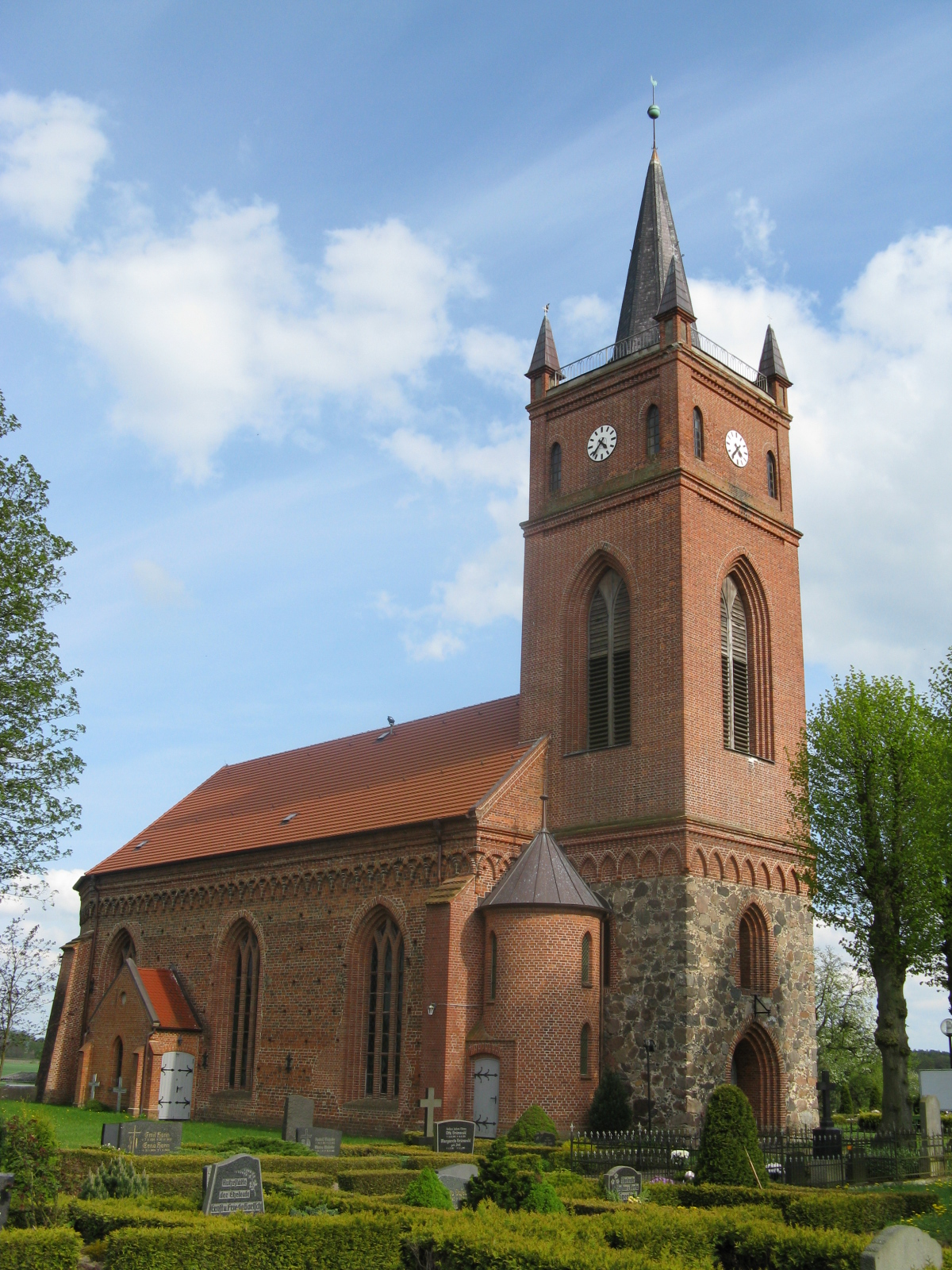 Church in Eldena, district Ludwigslust-Parchim, Mecklenburg-Vorpommern, Germany